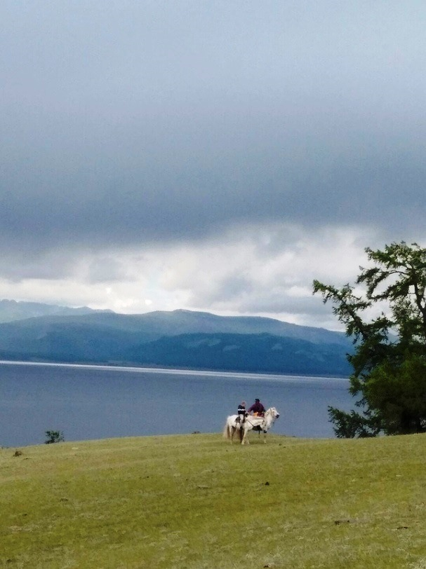 Mongols near Khövsgöl